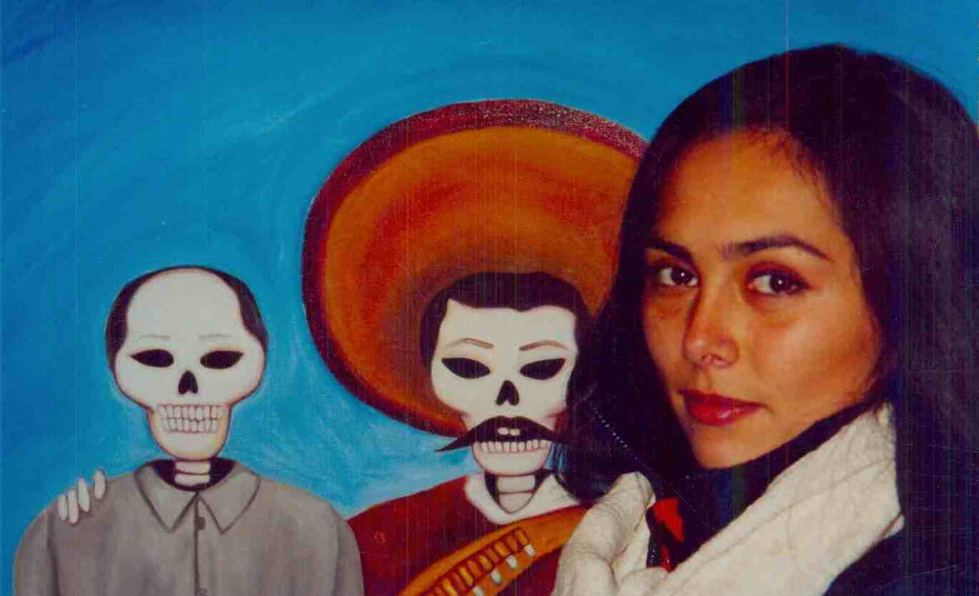 Mexican painter Patricia Calvo Guzmán and her work "Calacas revolucionarias"